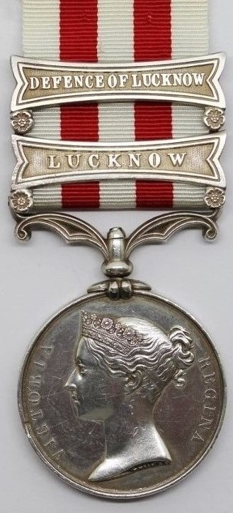 British Campaign Medal for those who helped suppress the Great Mutiny in India, 1857-58.